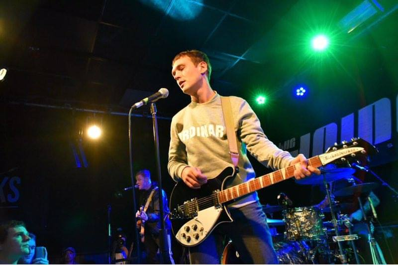 Preston performing onstage with The Ordinary Boys.